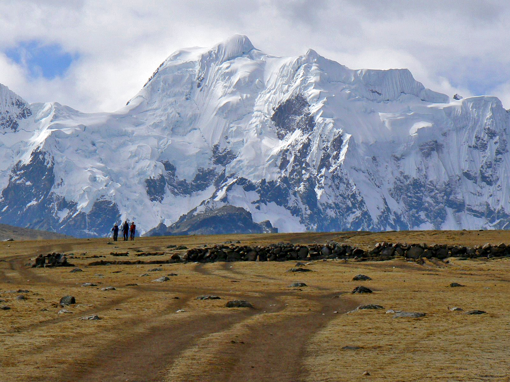 Nevado Callangate (Cuzco, Peru). The second highest mountain in the Cordillera Vilcanota.